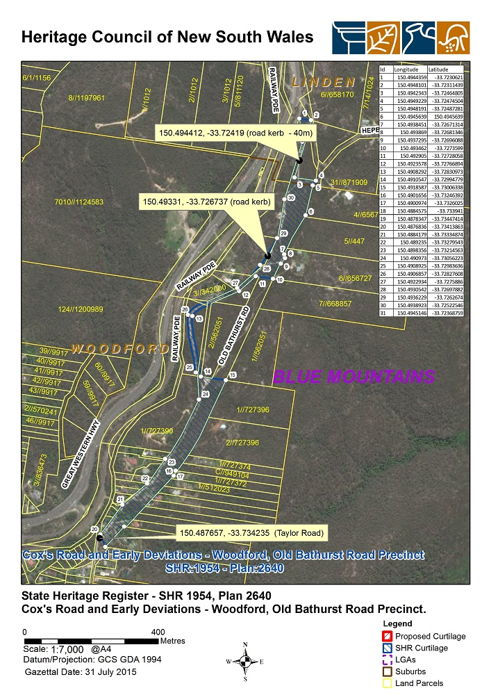 Cox's Road and Early Deviations - Woodford, Old Bathurst Road Precinct: SHR Plan 2640. Curtilage or boundary for Cox's Road and Early Deviations: Woodford, Old Bathurst Road Precinct - State Heritage Register listing - satellite view